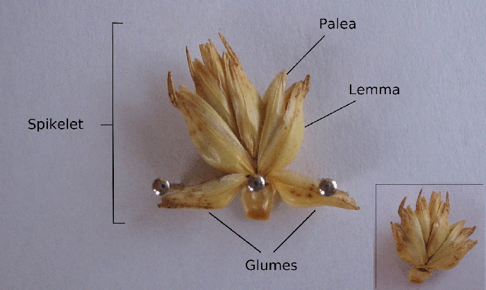 Wheat spikelet (Triticum aestivum)